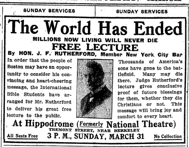 Advertisement for Hippodrome, Boston, Massachusetts, USA